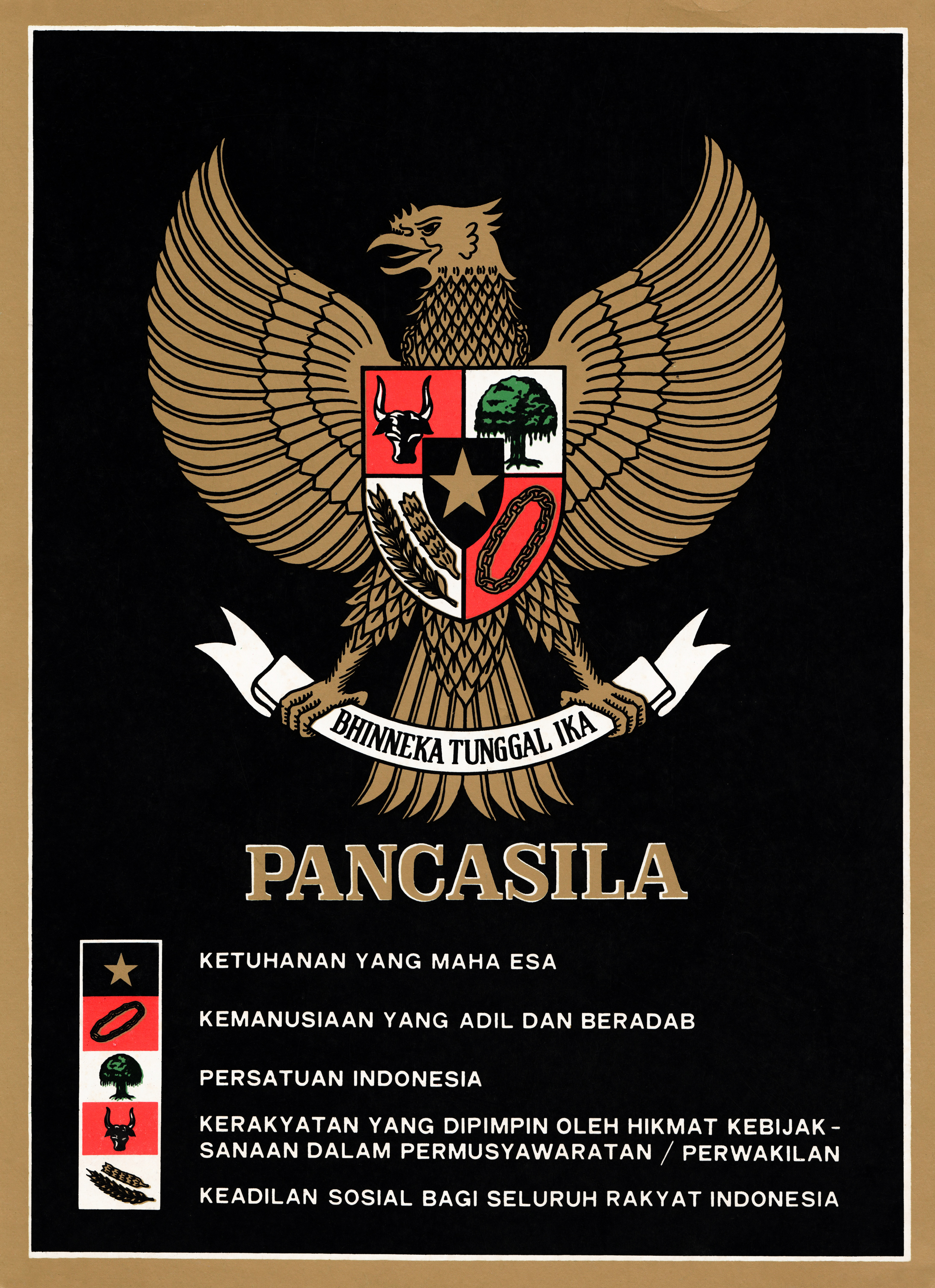 Garuda Pancasila poster, rendered in color. It reads as follows: Belief in the one and only God (in Indonesian, Ketuhanan Yang Maha Esa). Just and civilised humanity (in Indonesian, Kemanusiaan Yang Adil dan Beradab). The unity of Indonesia (in Indonesian, Persatuan Indonesia). Democracy guided by the inner wisdom in the unanimity arising out of deliberations amongst representatives (in Indonesian, Kerakyatan Yang Dipimpin oleh Hikmat Kebijaksanaan, Dalam Permusyawaratan dan Perwakilan). Social justice for all of the people of Indonesia (in Indonesian, Keadilan Sosial bagi seluruh Rakyat Indonesia).